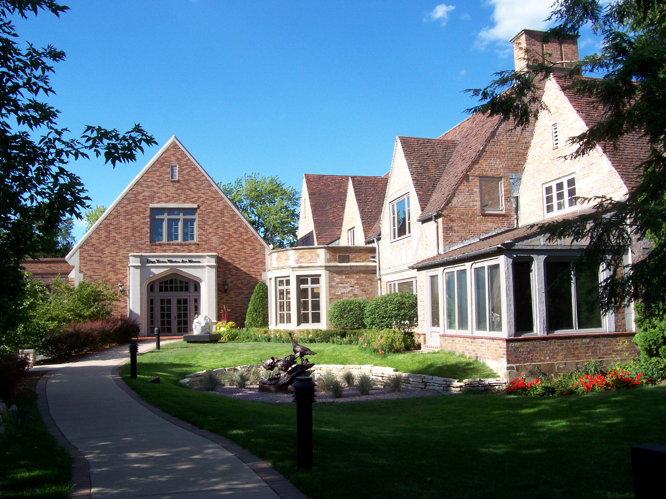 The entrance to the Leigh Yawkey Woodson Art Museum in Wausau, Wisconsin, USA.